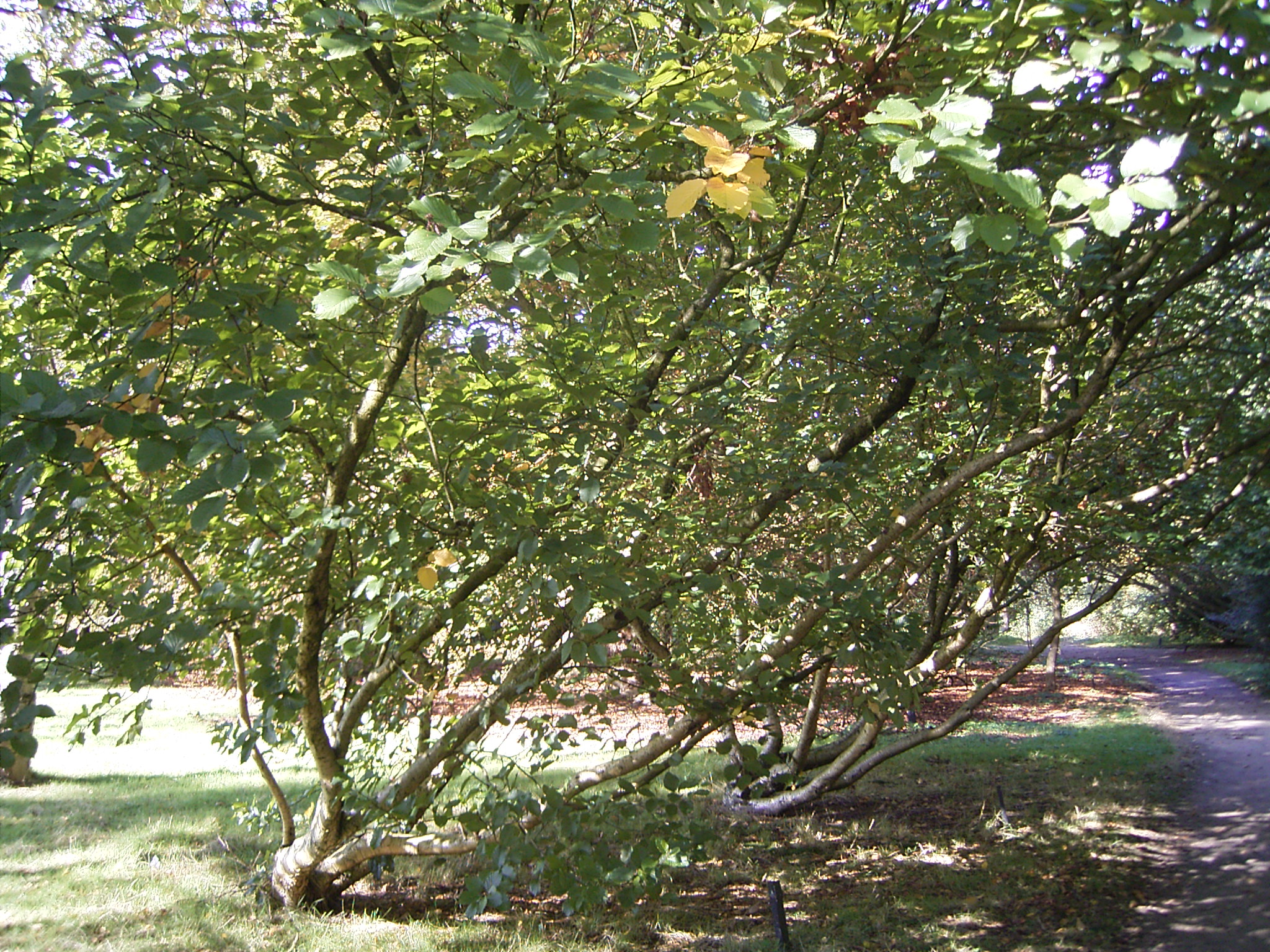 Deze foto toont de Betula medwediewii. Ik nam de foto zaterdag 1 oktober 2005 in het arboretum in Wageningen. This pic shows Betula medwediewii. I took the photo on saturday 1 october 2005 in Wageningen, Netherlands.